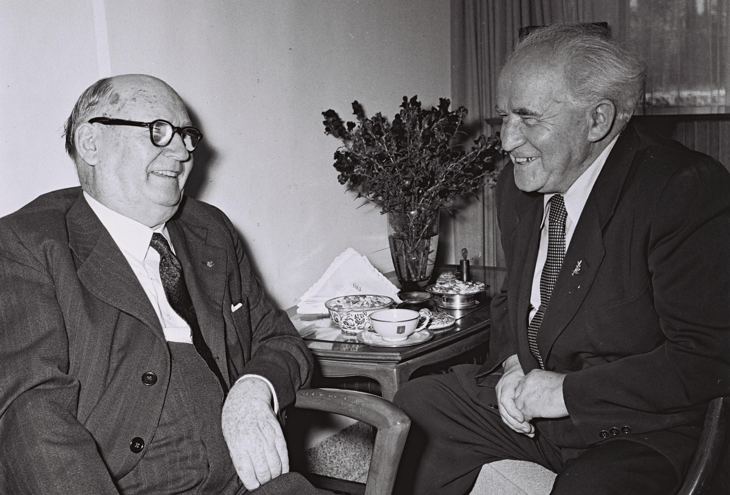 Prime Minister of Israel David Ben Gurion meeting Daniel Francois Malan in Tel Aviv.